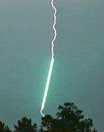 Artificial lighting strike at Camp Blanding